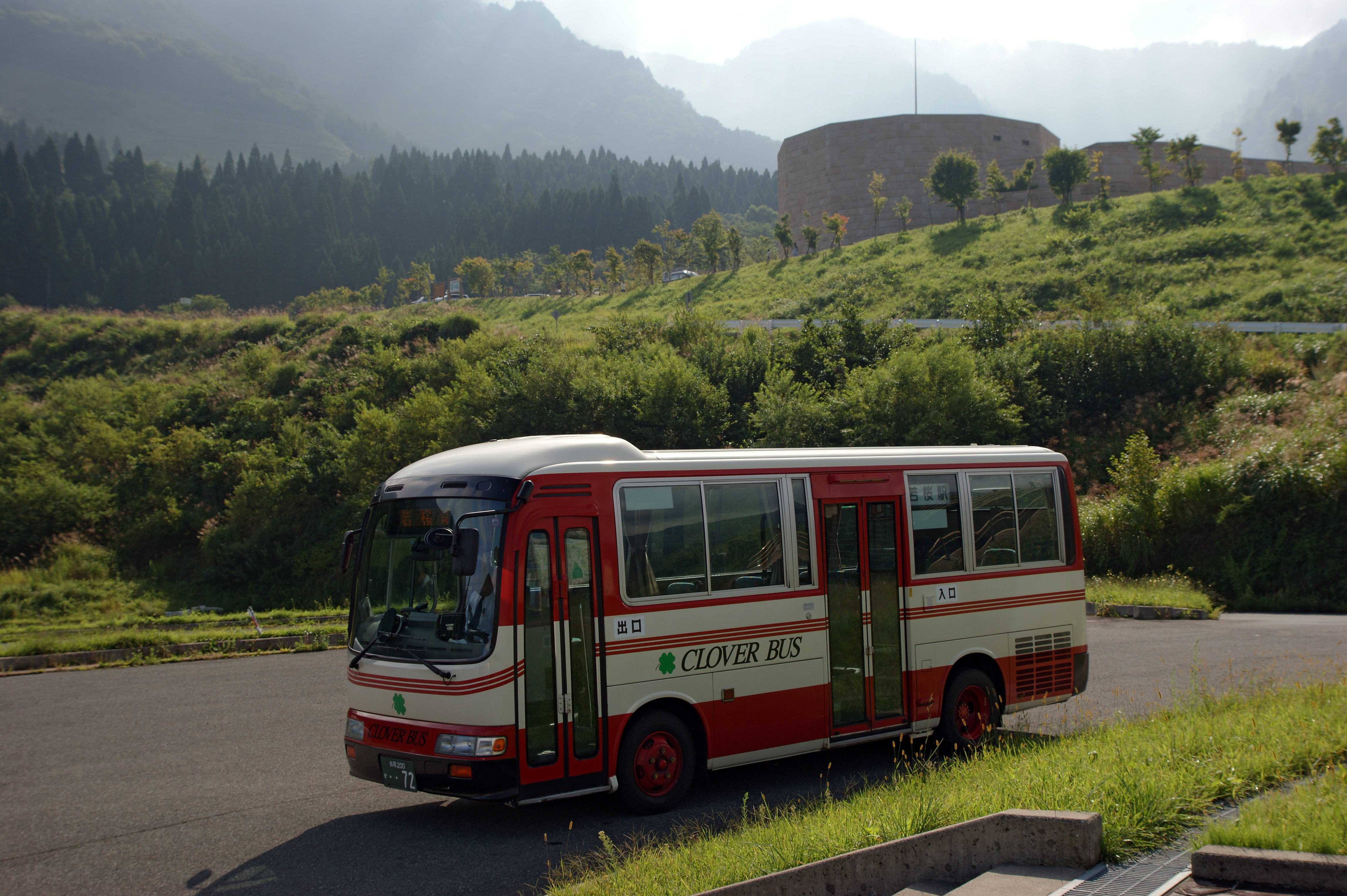 Clover Bus at Wakasa, Tottori prefecture, Japan